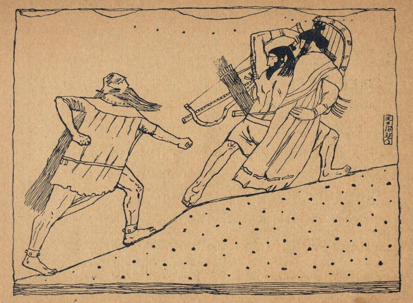 Ōkuninushi and Suseribime leave the netherworld (Ne-no-Kuni), with Susanoo chasing after them.